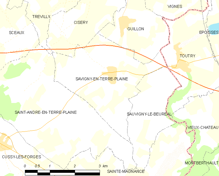 Map of French municipality Savigny-en-Terre-Plaine